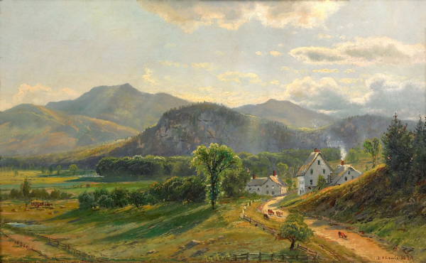 Moat Mountain